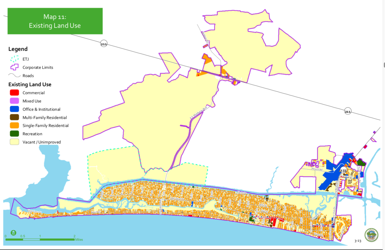 Photo copy of chart contained in Oak Island Land Use Plan (2017). Plan has no copyright protection per Chapter 132 of the NC Legislative Code